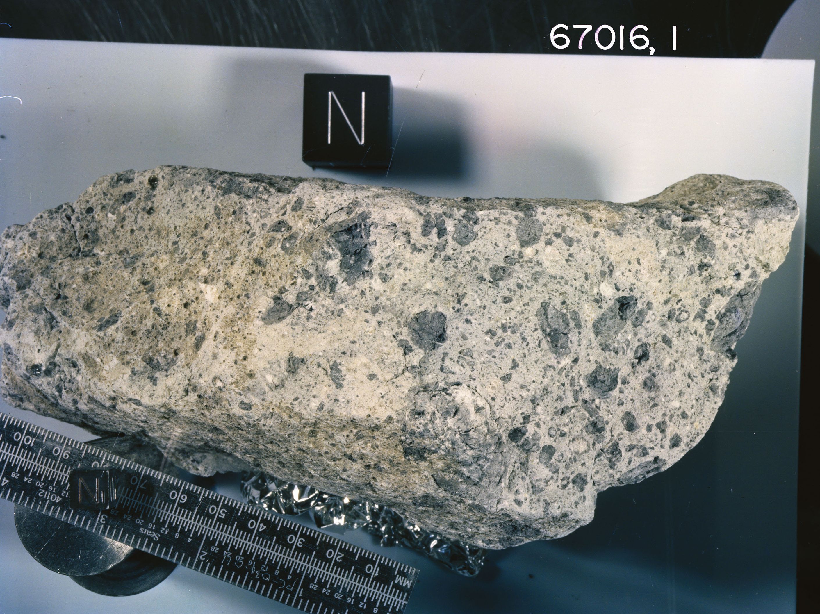 Breccia (suevite), Apollo 16 lunar sample 67016, collected at North Ray on the moon.